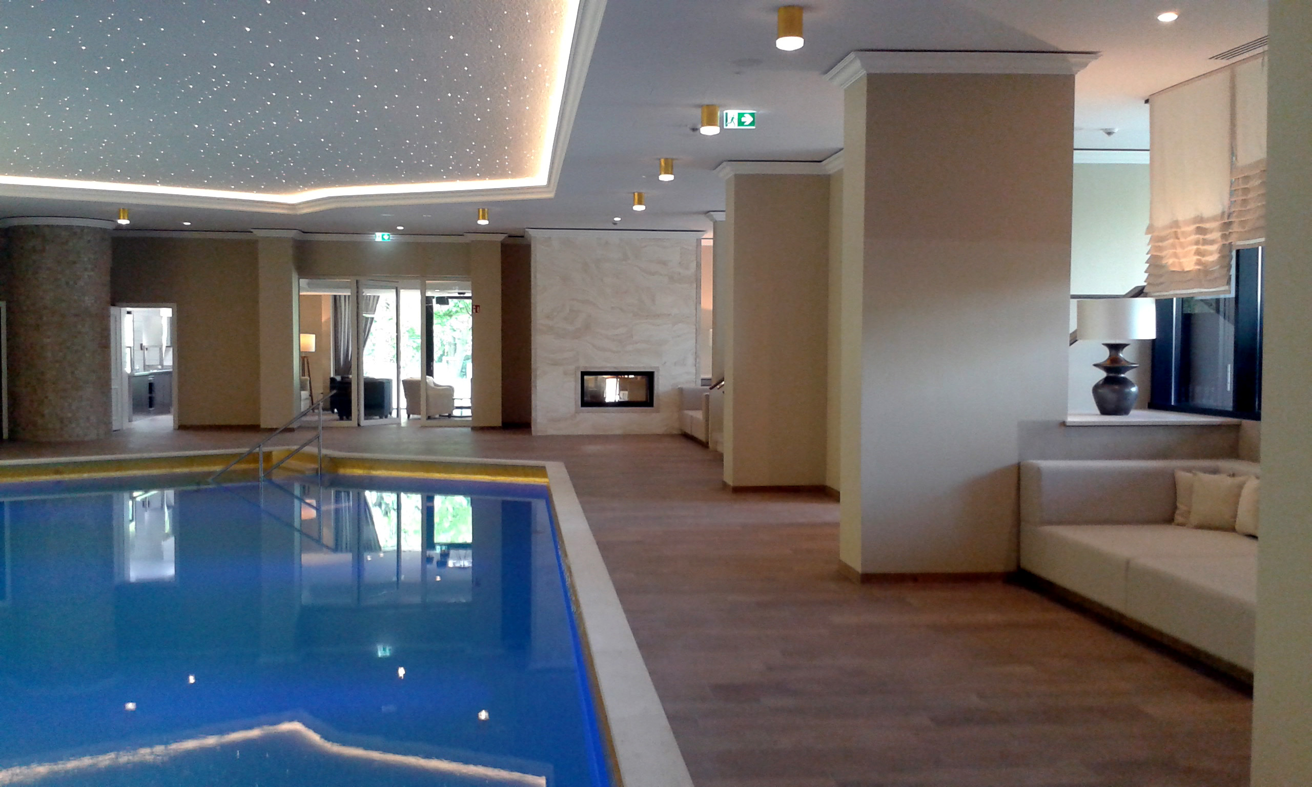 Kempinski SPA